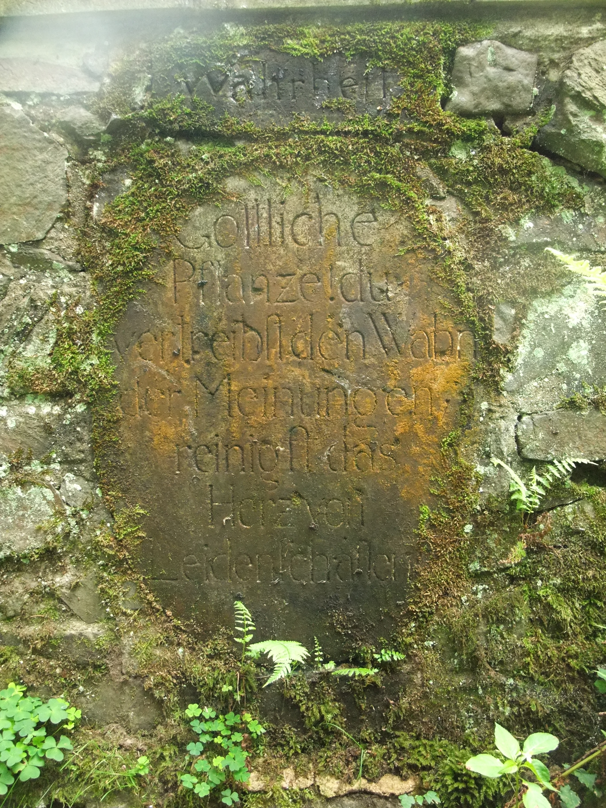 lapidary inscription at the well "Schöpfe schweigend" in Seifersdorf Valley in Saxony